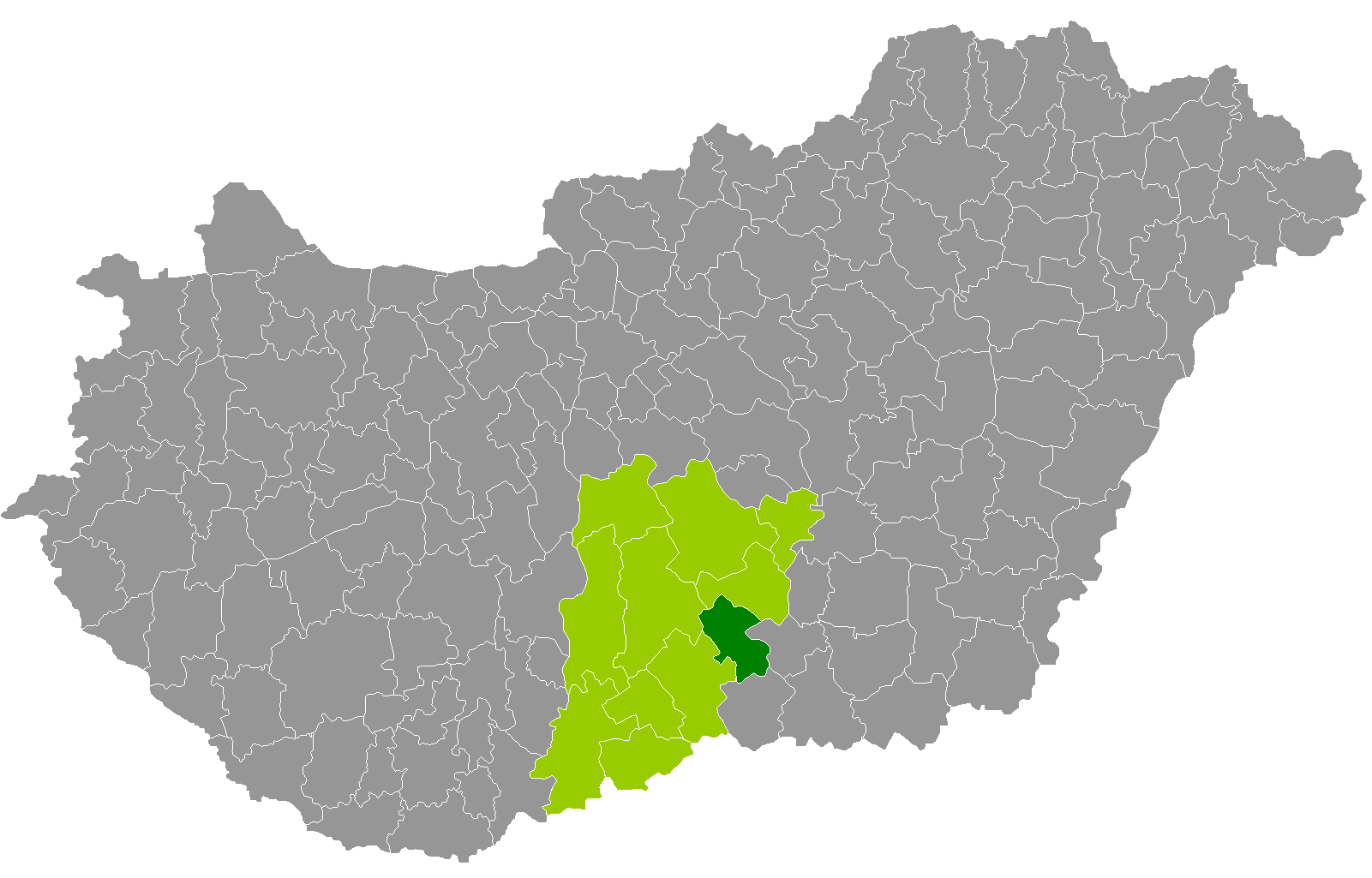 Location of Kiskunmajsa District, Bács-Kiskun, Hungary